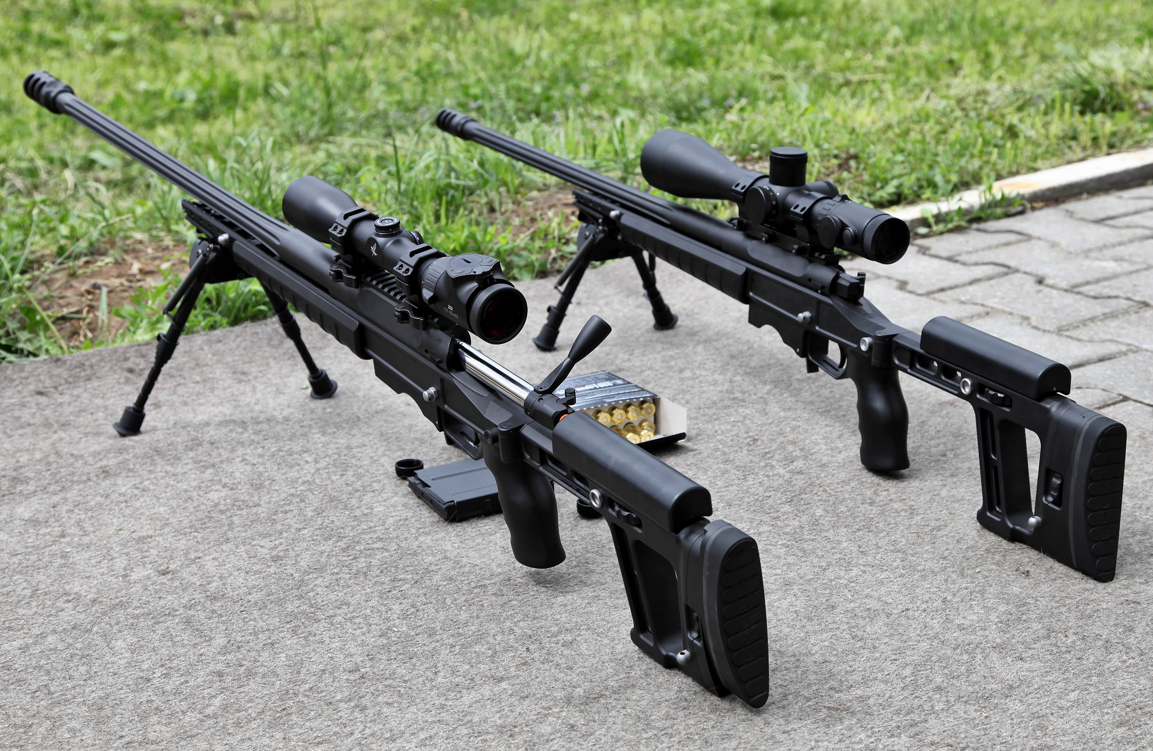 ORSIS T-5000 .338 LM и.308 Win